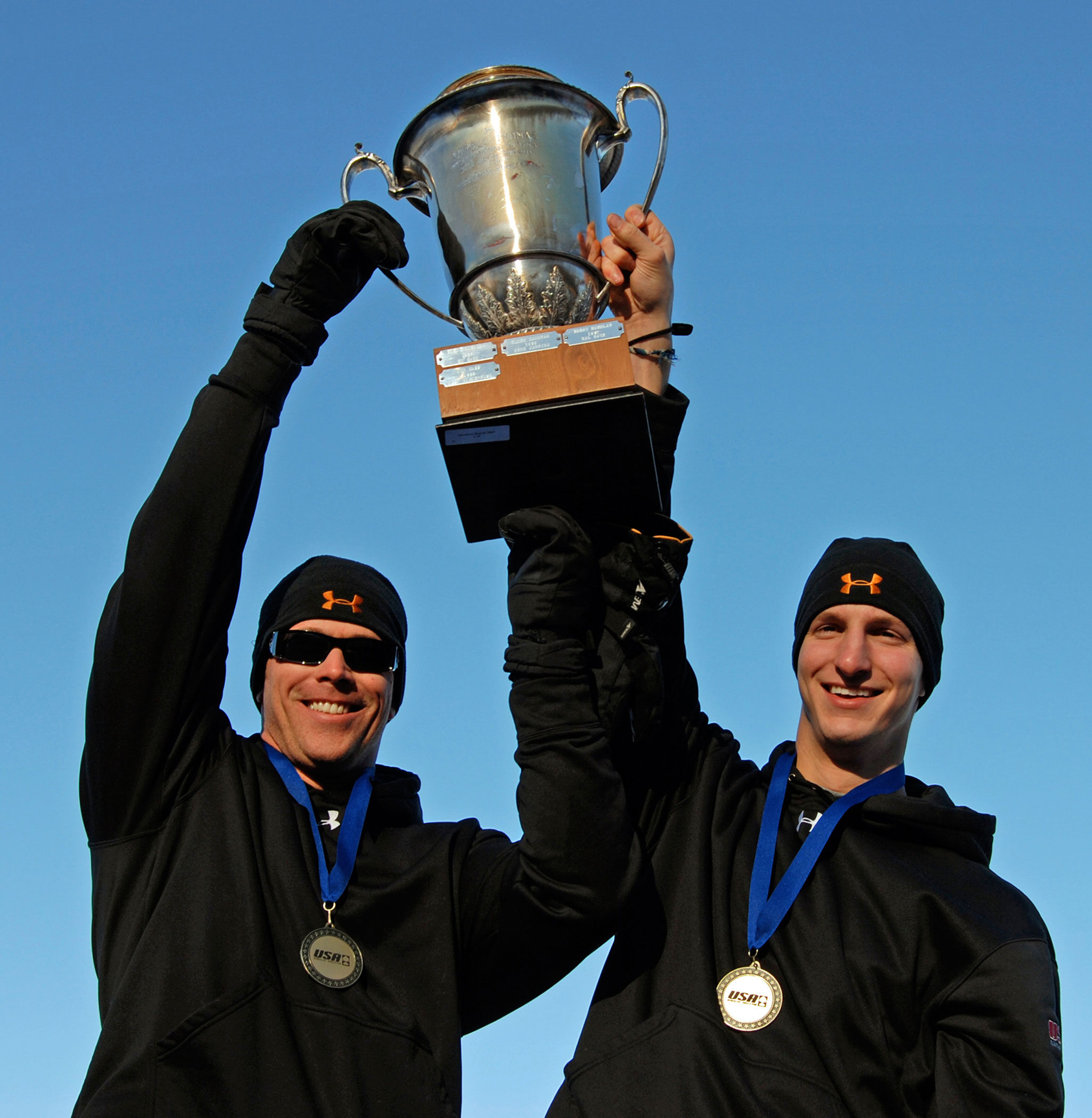 Cory Butner (left) and Vermont National Guard Pfc. John Napier (right) hoist their trophy after winning the Two-man U.S. National Bobsled Championship Jan. 4 at the Olympic Sports Complex in Lake Placid, N.Y. With the victory, the duo earned a spot in the 2009 World Bobsled Championships, scheduled for Feb. 20-March 1 in Lake Placid. Photo courtesy of U.S. Bobsled and Skeleton Federation.